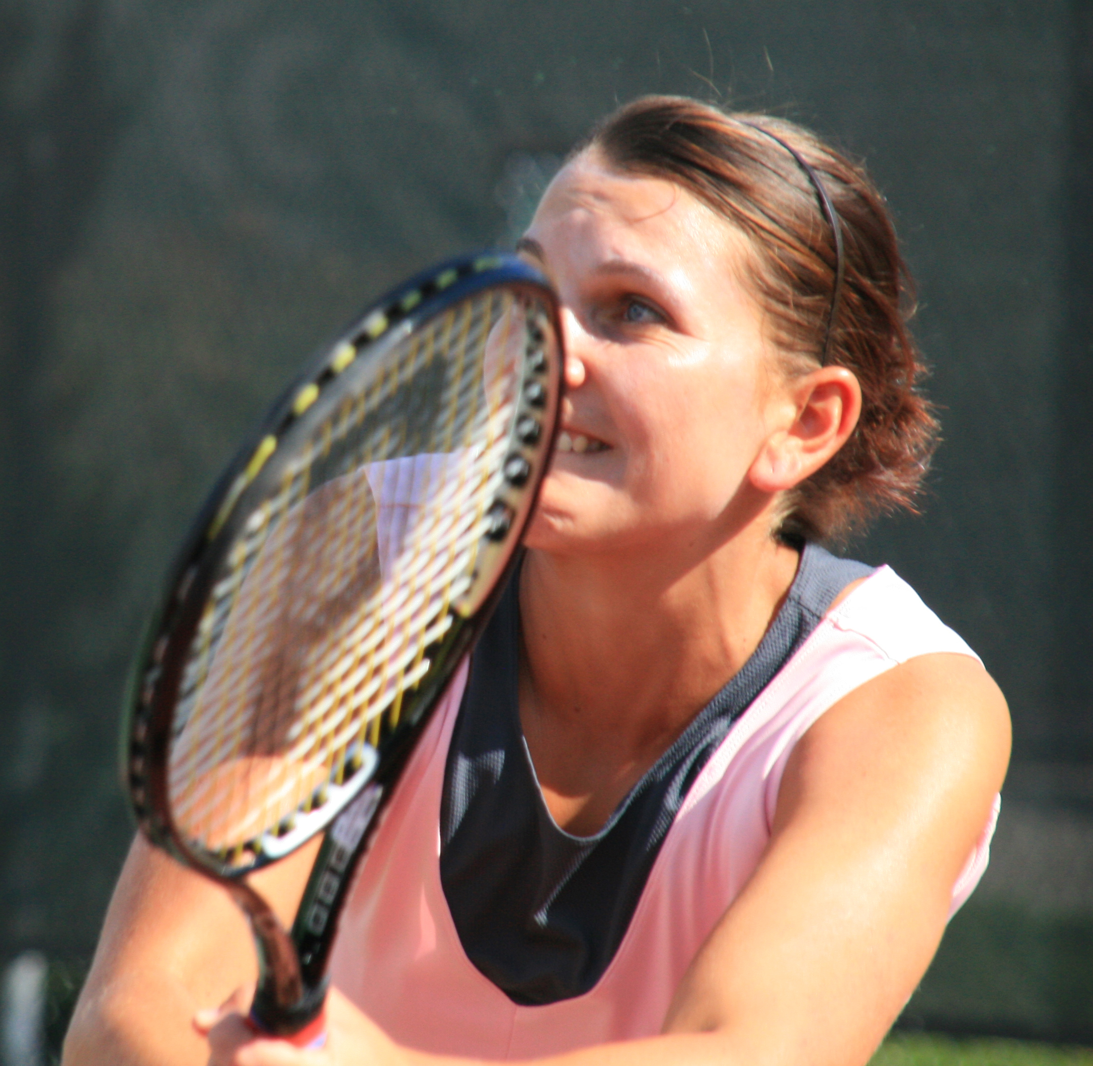 Chanelle Scheepers at the Coleman Vision Tennis Championship in Albuquerque, New Mexico.